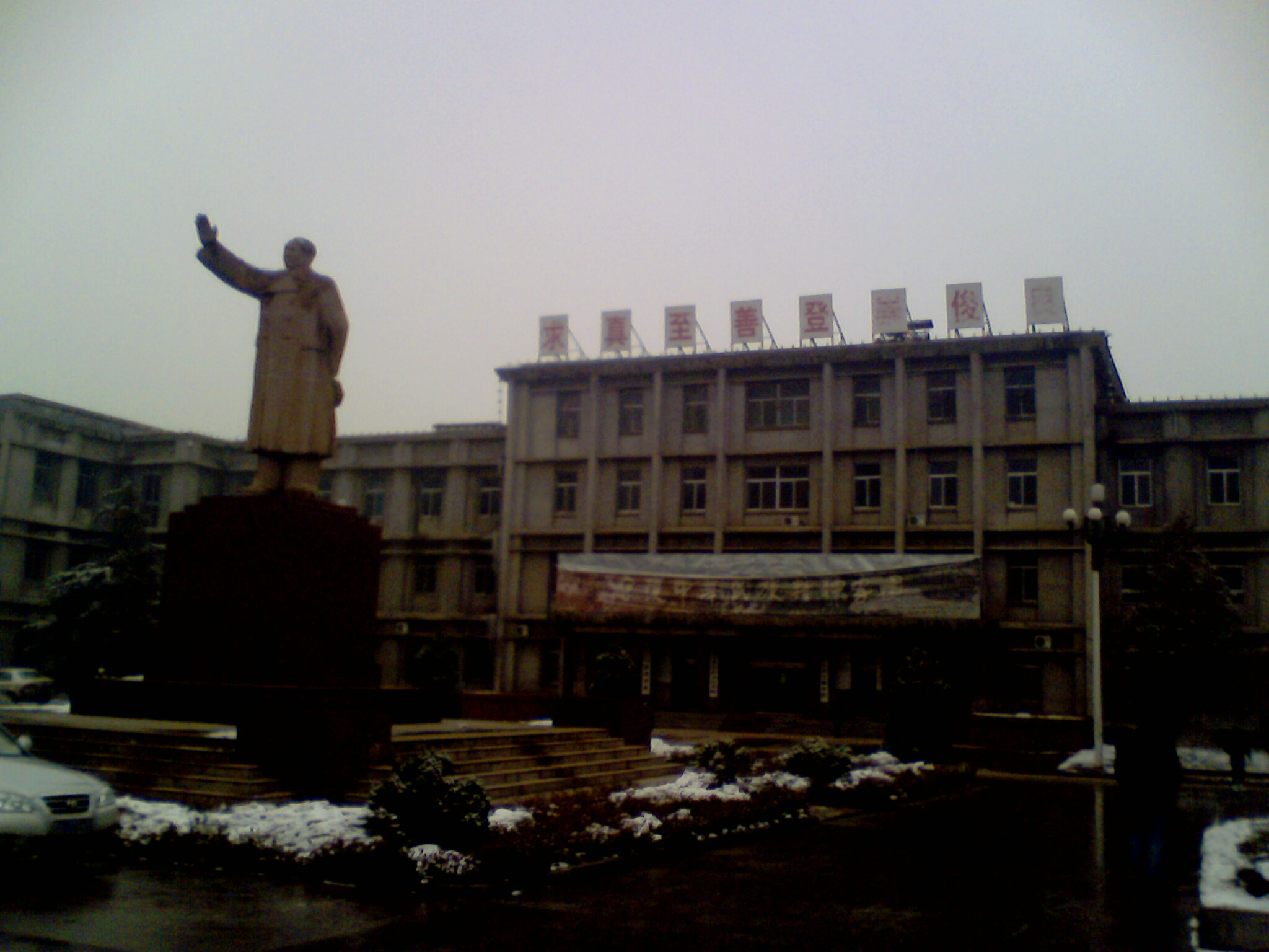 Mao Zedong's Statue in Shanxi University